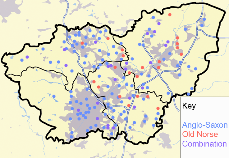 Toponymy within the English county of South Yorkshire.